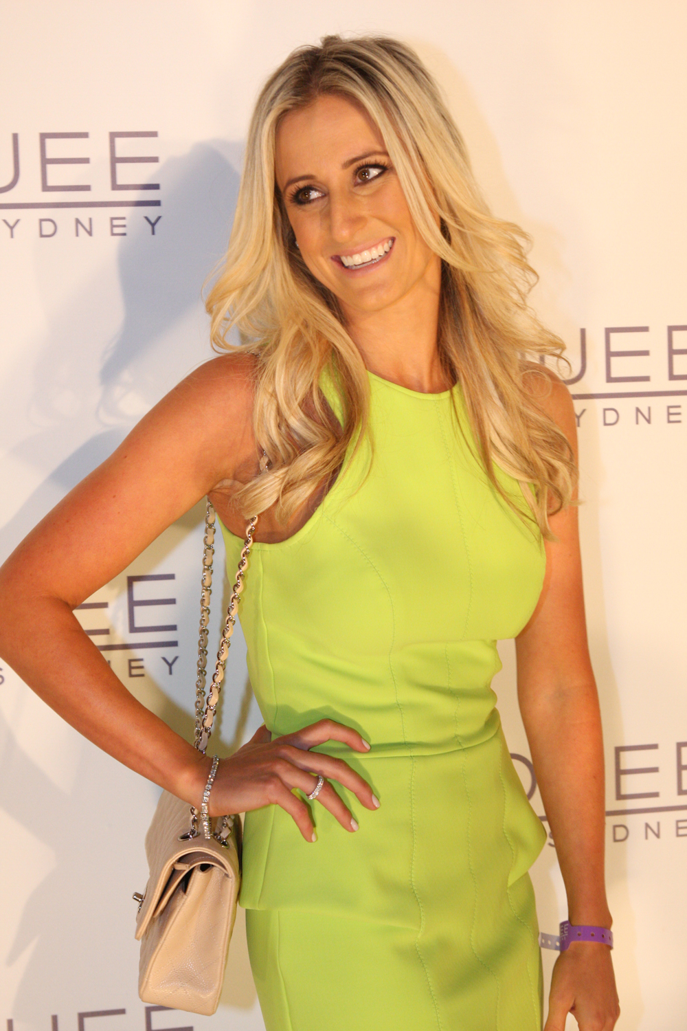 Roxy Jacenko in March 2012